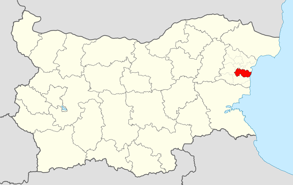 Location map of Avren Municipality within Varna Province, Bulgaria. Equirectangular projection, N/S stretching 130 %. Geographic limits of the map: N: 44.4° N S: 41.1° N W: 22.1° E E: 28.9° E